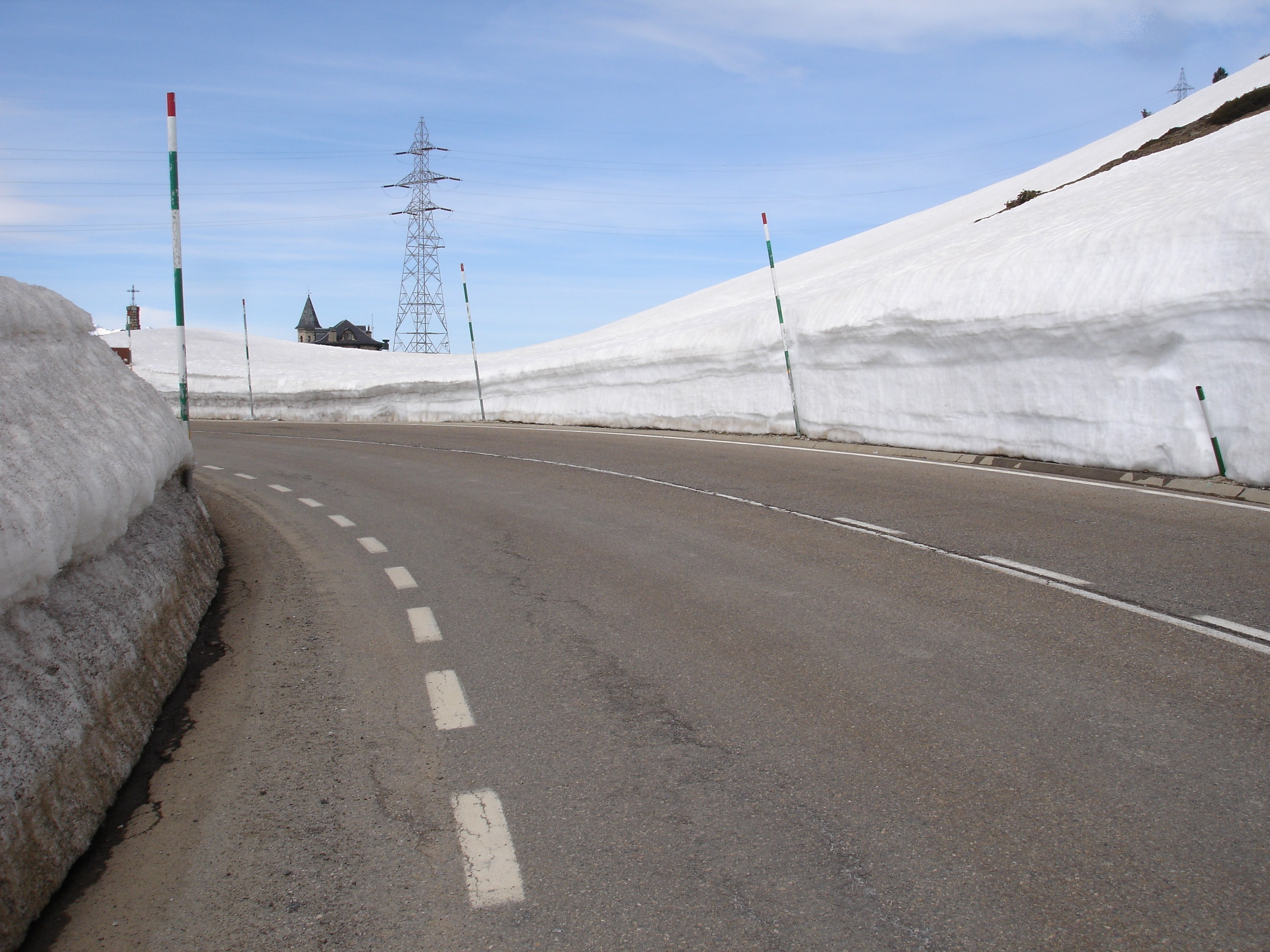 Port of La Bonaigua (Pallars Sobirà, Lleida)(Catalonia, Spain)